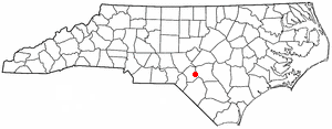 Category:North Carolina Dot Maps